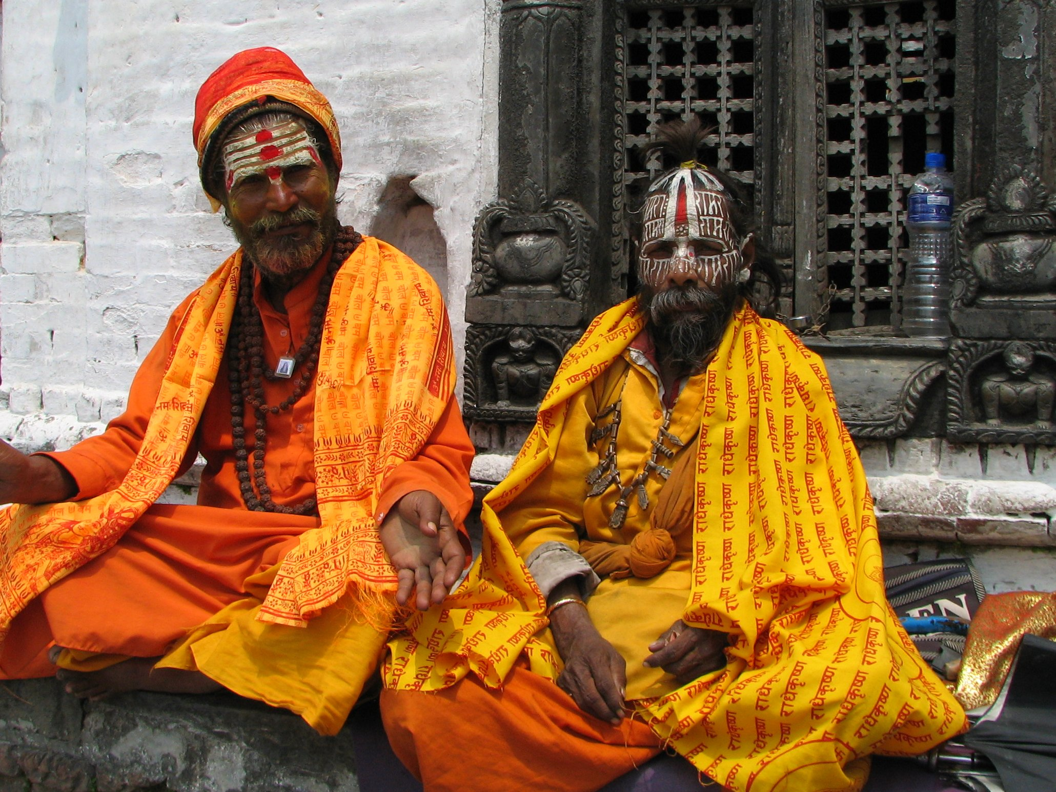 These 2 sadhus at the Pashupatinath Temple would pose if you donated generously. I generally do not like to give money for photos, but since it was going to the temple and they were rather friendly, we acquiesced this time.